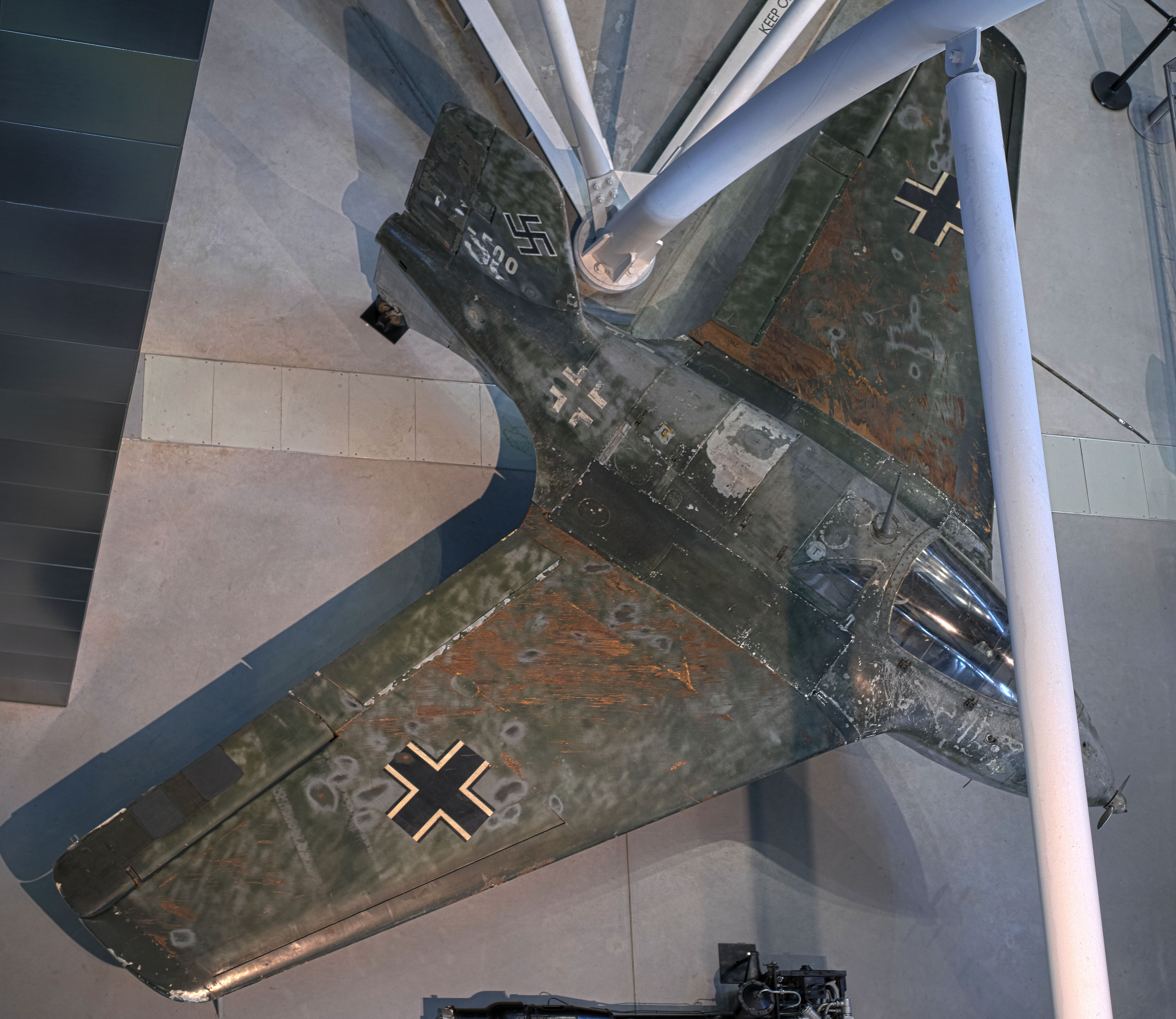 Plan view of the un-restored Messerschmitt Me 163 Komet at the Smithsonian Institute's Udvar-Hazy Center in Chantilly, Virginia, USA.